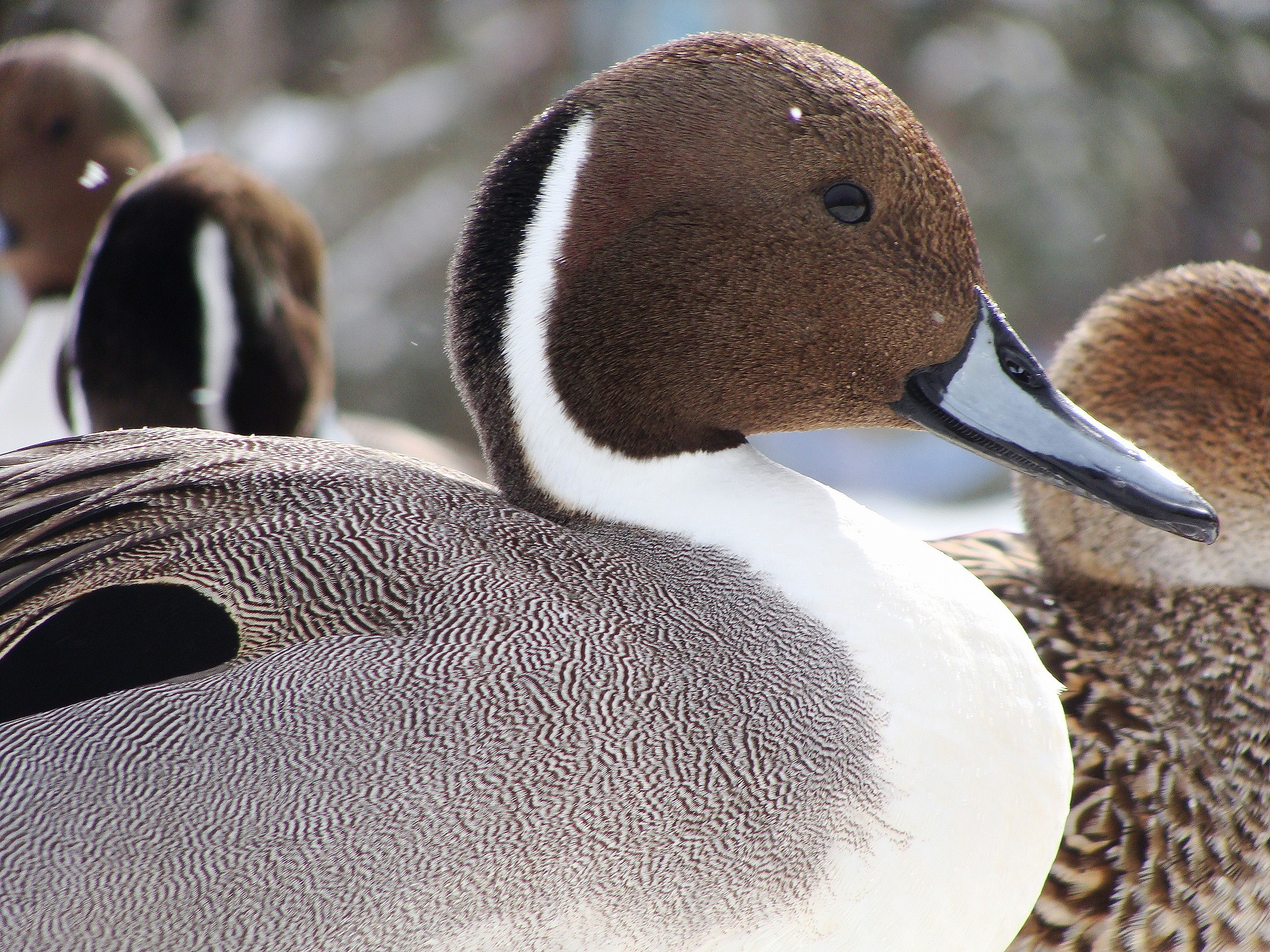 Northern Pintail_Male